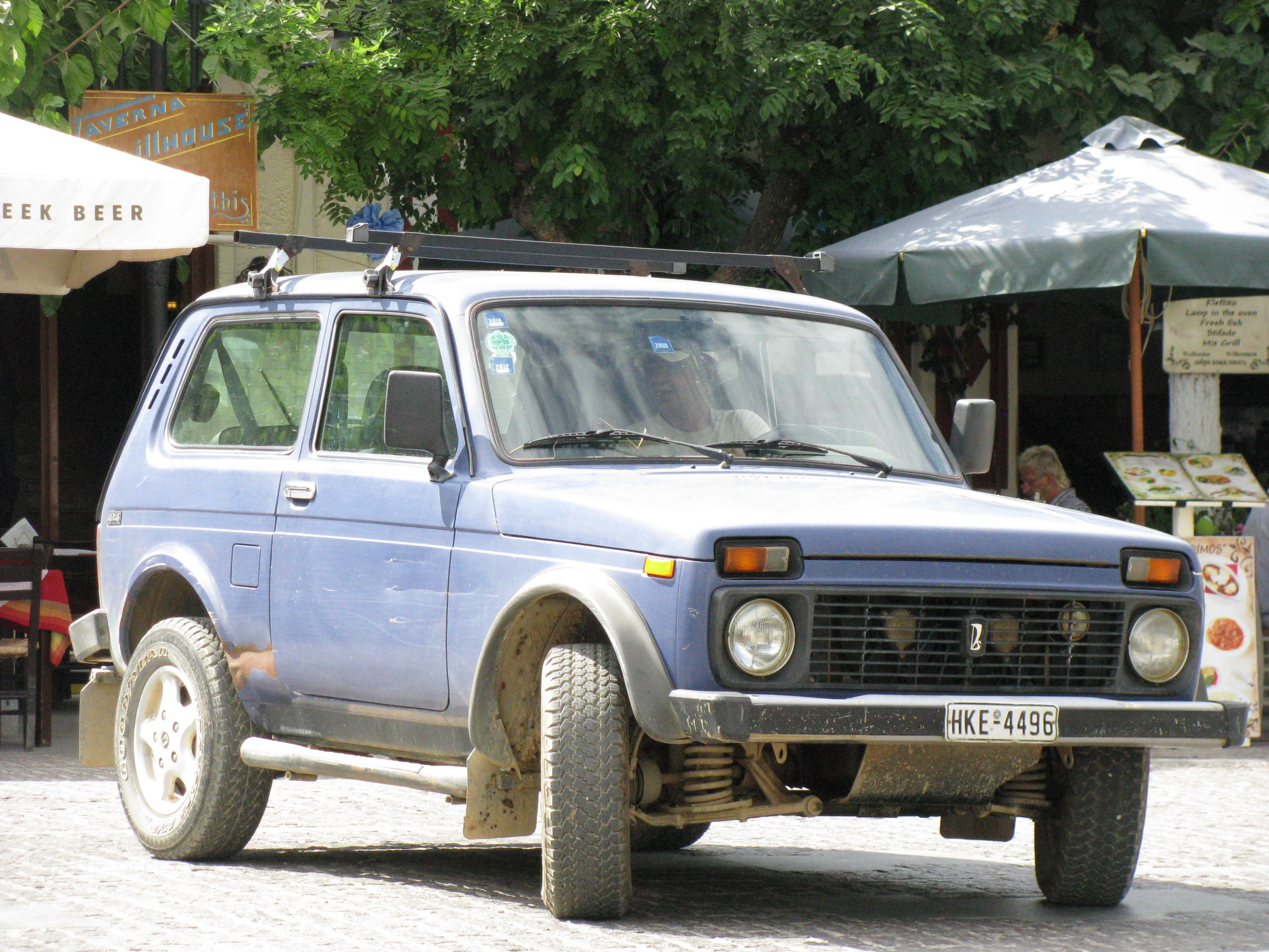 VAZ 2121 Niva in Mohos village at Crete